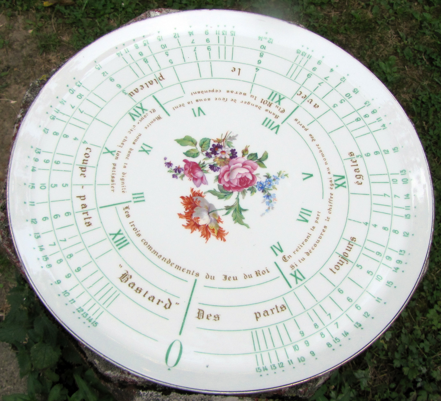 Plate for cutting a round cake into equal parts. Porcelain, circa 1907, Gourmet museum of Hermalle-sous-Huy.